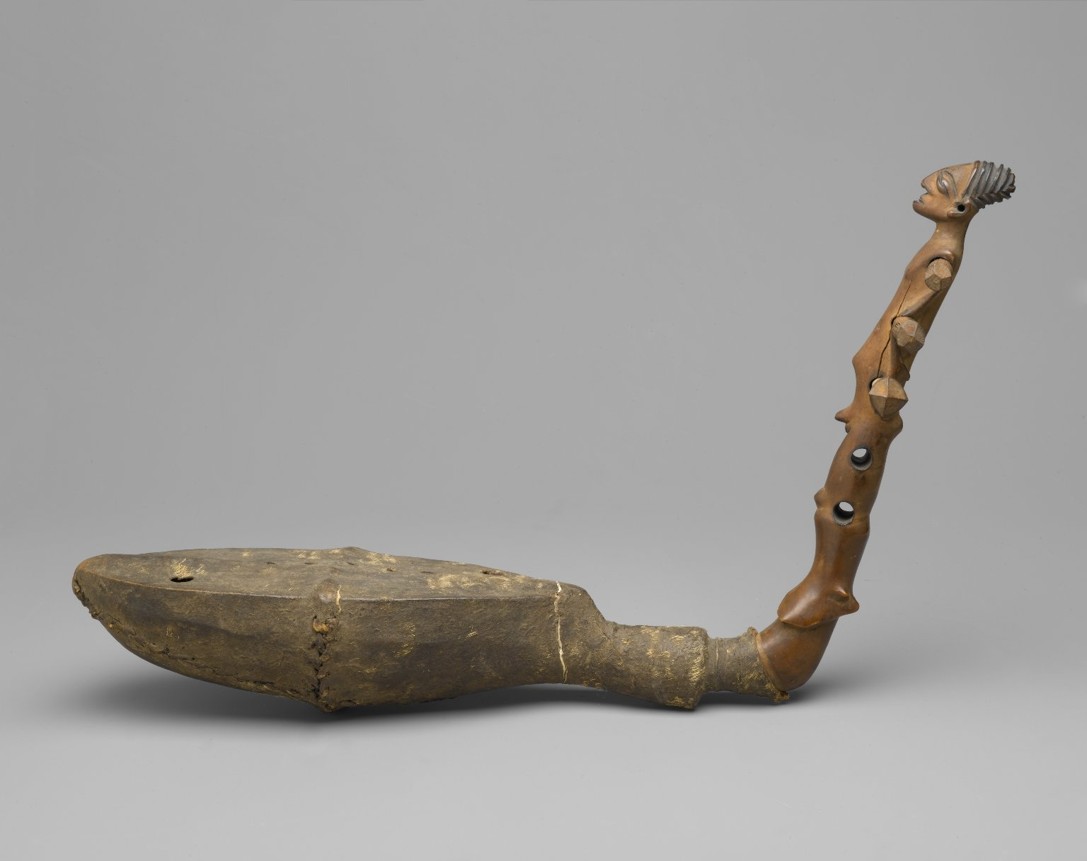 Oval shaped wooden resonator covered with hide. Two round openings are found on anterior surface. Neck is curved and ends in a male human figure with a Mangbetu headdress. Arms , legs and male genitalia are indicated on figure. 3 out of 5 pegs are found. (Pegs are marked C, E, F). CONDITION: Crack in left proper torso area of figure on neck. Several cracks in hide, D is missing.